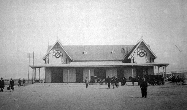 Buenos Aires train station, terminus of French-owned CGBA.